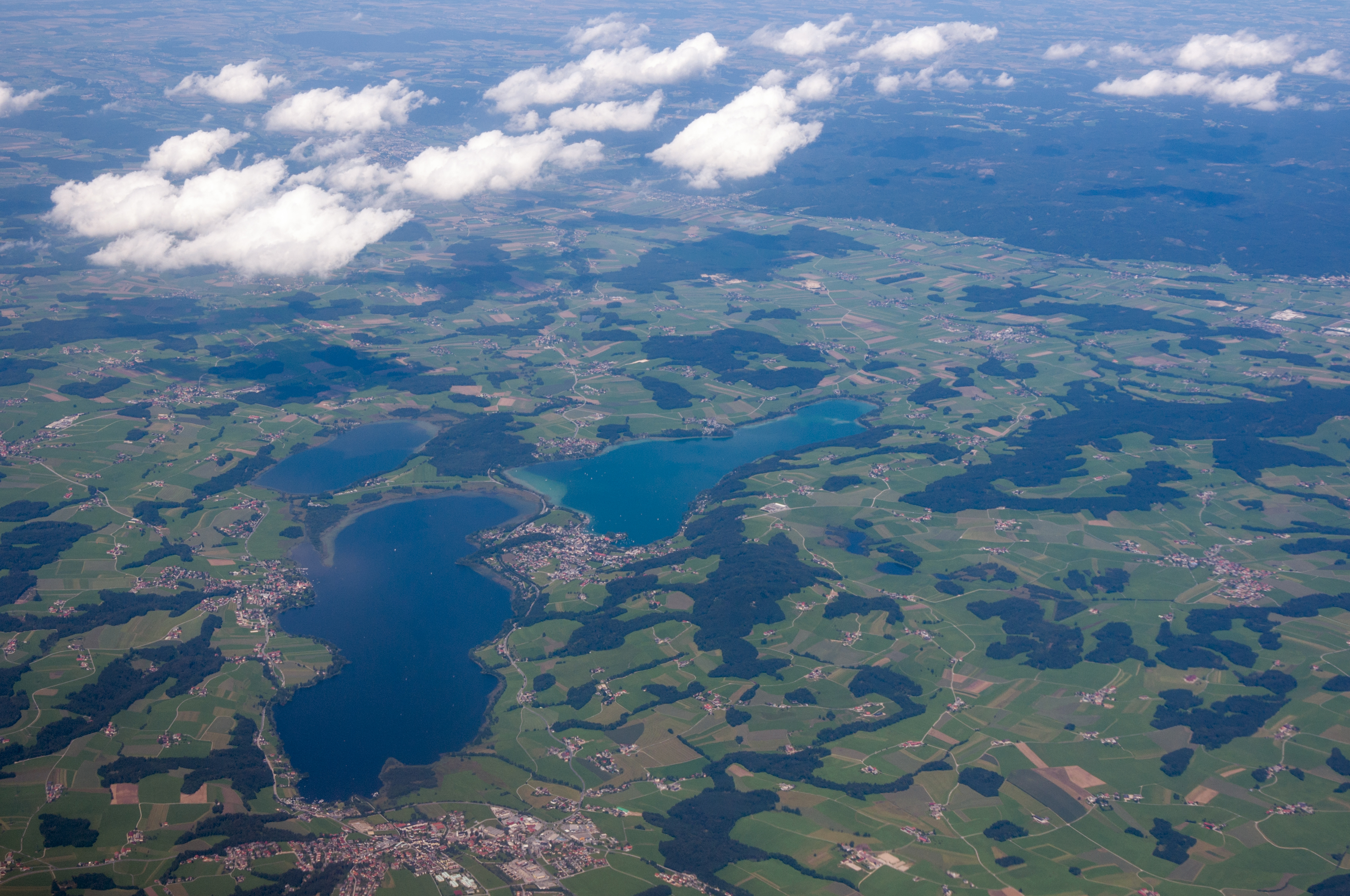 Austria, aerial impressions between Belgrade and Munich